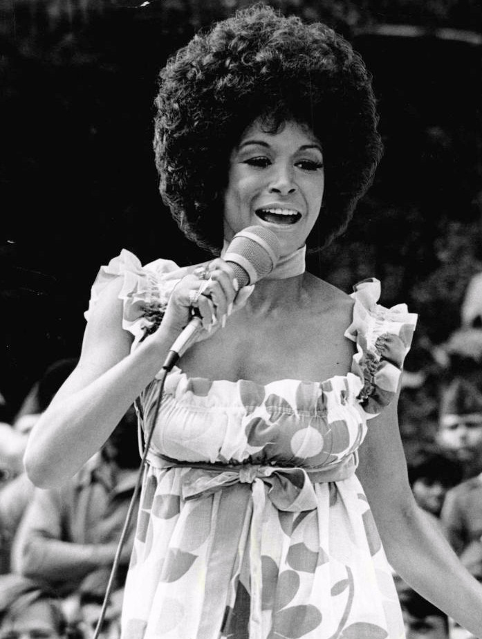 Photo of Freda Payne performing on The Ed Sullivan Show. Sullivan was broadcasting from Walter Reed Army Hospital for this show.